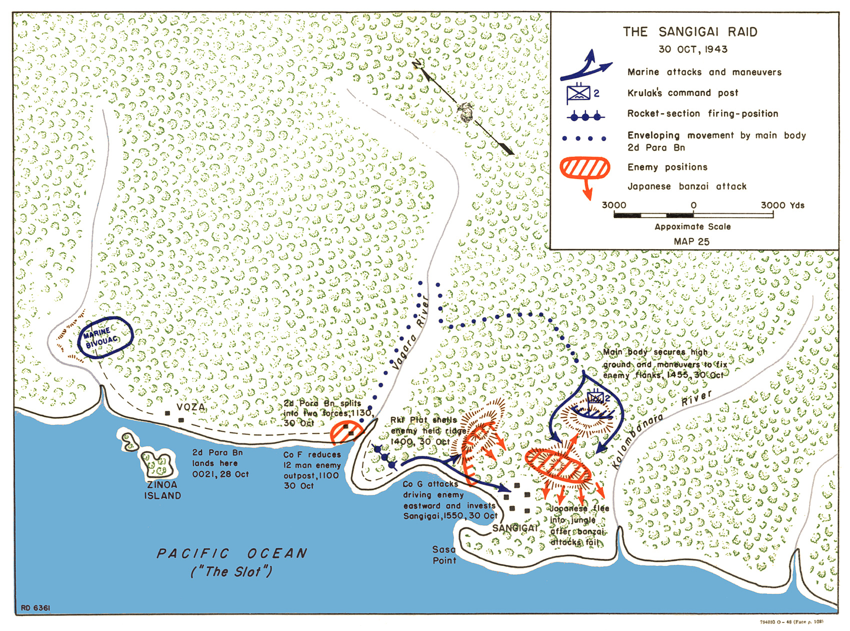 Map depicting fighting around Sangigai on Choiseul, 30 October 1943